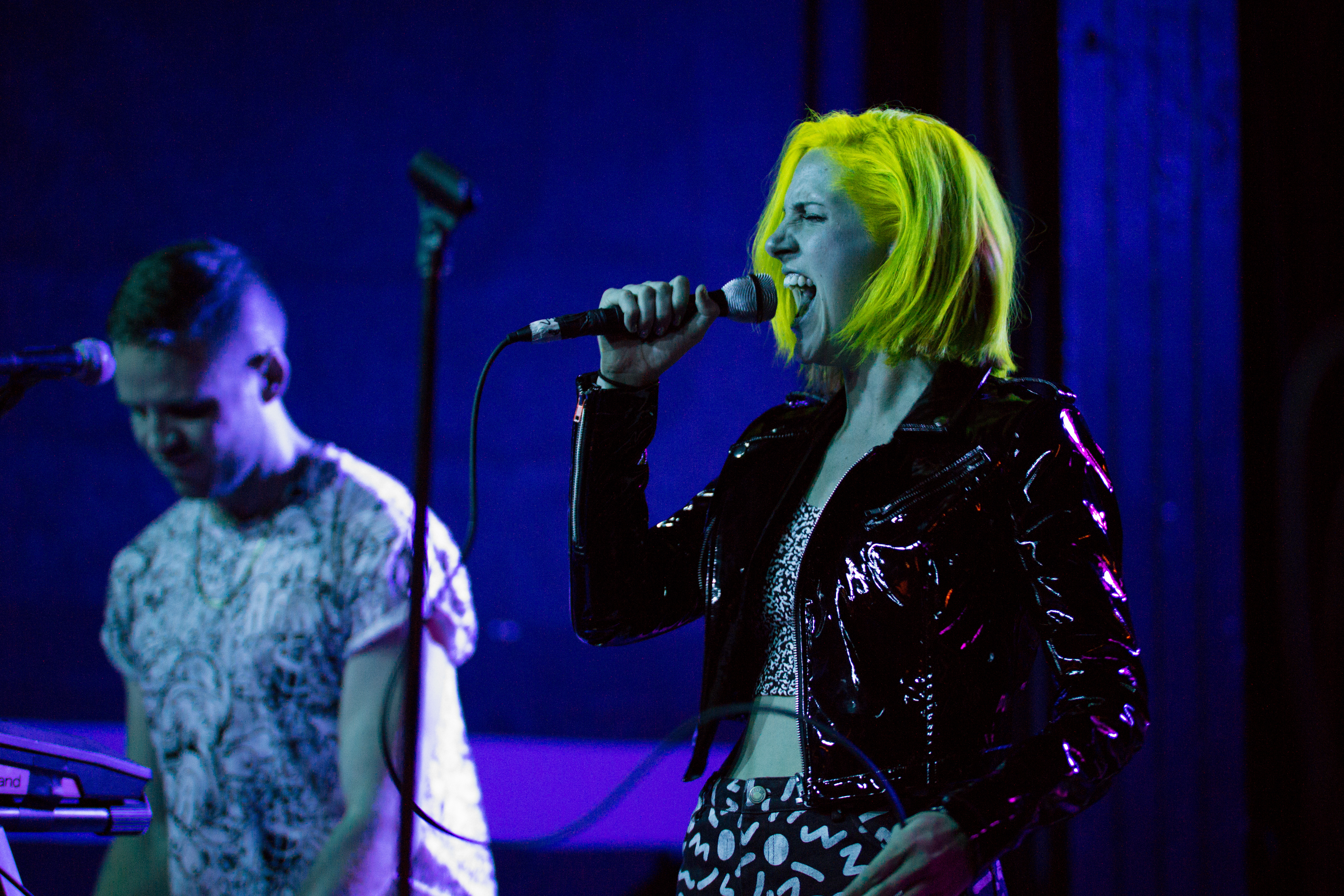 American band MS MR at the Austin City Limits music festival in October 2013.